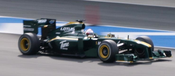 Photo from the Jerez Test taked by me.